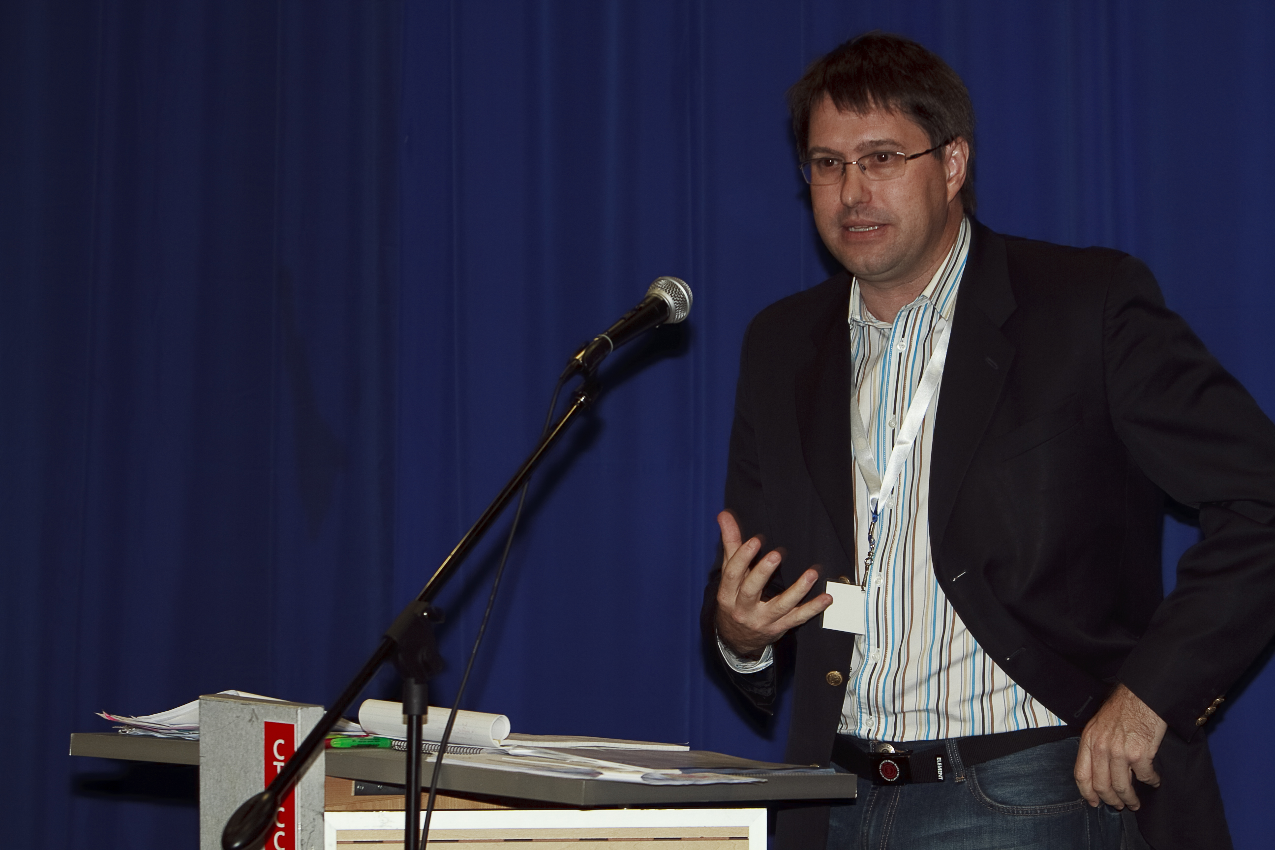 DA Shadow Defence Minister David Maynier addresses a breakaway session